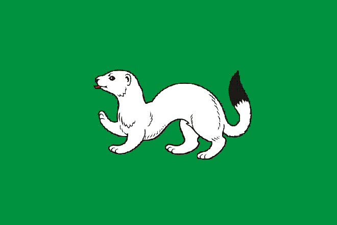 Flag of Tara, Omsk Region, Russia